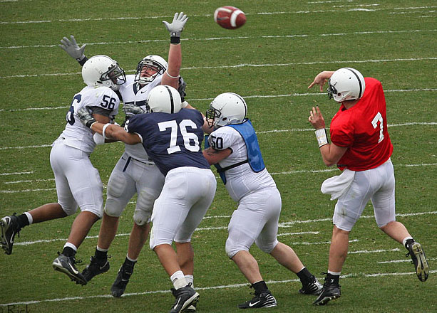 Penn State offensive tackles Gerald Cadogan (76) and Mike Lucian (50) pass protect for quarterback Pat Devlin (7) during the 2008 Blue and White scrimmage at Beaver Stadium, April 19, 2008.